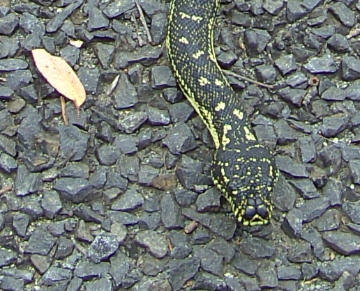 Morelia spilota spilota (Diamond Python) - adult, head. This snake had been on a country road south of Nowra. New South Wales, and had run over mid-body by my vehicle but was evidently unhurt.